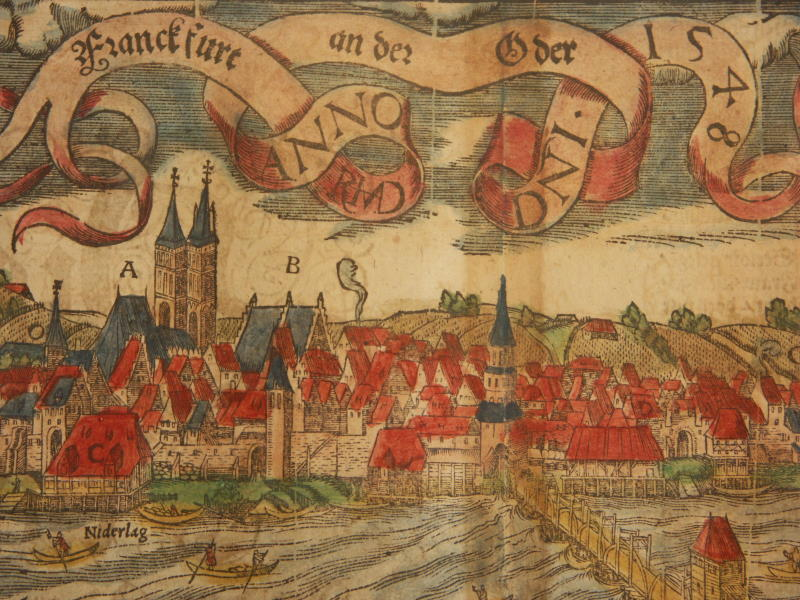 Sebastian Münster (1488-1552) was a German cartographer, cosmographer, and Hebrew scholar whose Cosmographia (1544; "Cosmography") was the earliest German description of the world and a major work in the revival of geographic thought in 16th-century Europe. Altogether, about 40 editions of the Cosmographia appeared between 1544 and 1628; Münster was a major influence on his subject for over 200 years. Münster acquired the material for his book in three ways. He used all available literary sources. He tried to obtain original manuscript material for description of the countryside and of villages and towns. Finally, he obtained further material on his travels (primarily in south-west Germany, Switzerland, and Alsace). Cosmographia not only contained the latest maps and views of many well-known cities, but also included an encyclopaedic amount of detail about the known -- and unknown -- world, and was undoubtedly one of the most widely read books of its time. Aside from the well-known maps present in the Cosmographia, the text is thickly sprinkled with vigorous views: portraits of kings and princes, costumes and occupations, habits and customs, flora and fauna, monsters, wonders, and horrors.